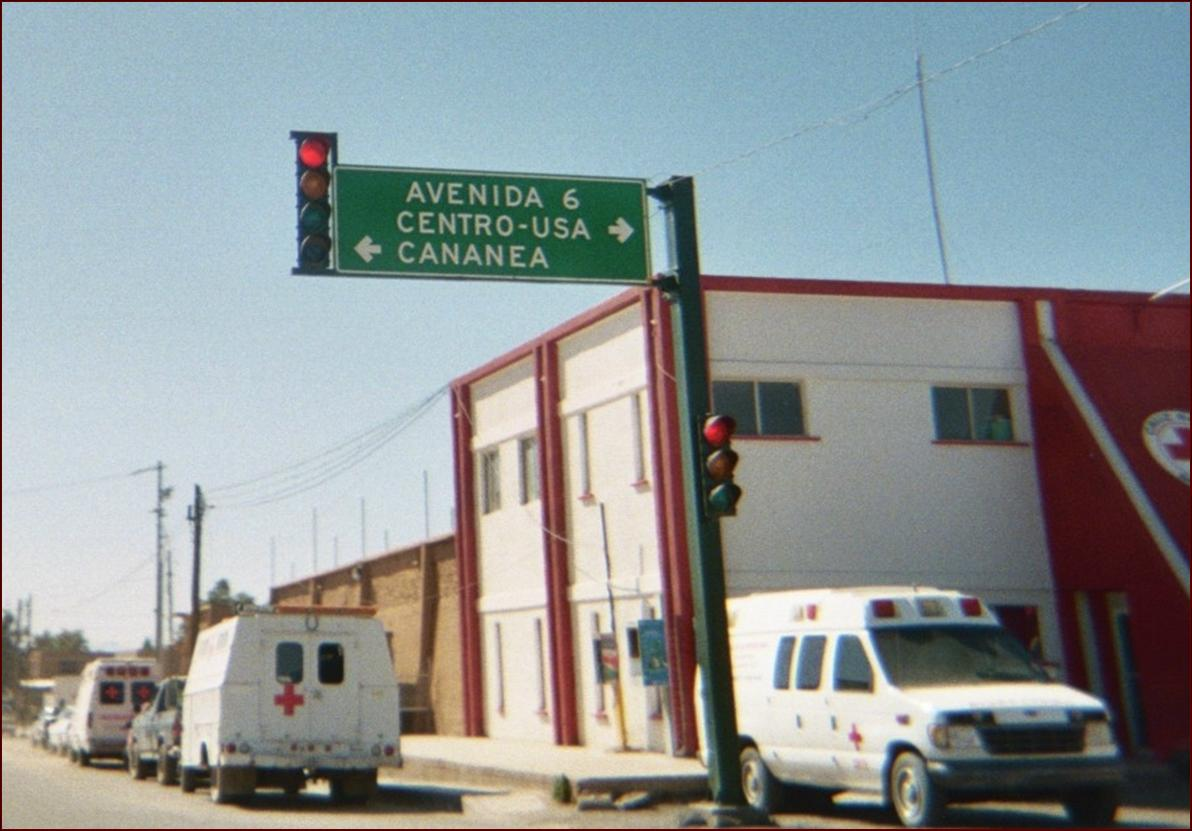 This is a picture of the street leading towards Cananea (picture shows the Red Cross in Agua Prieta).